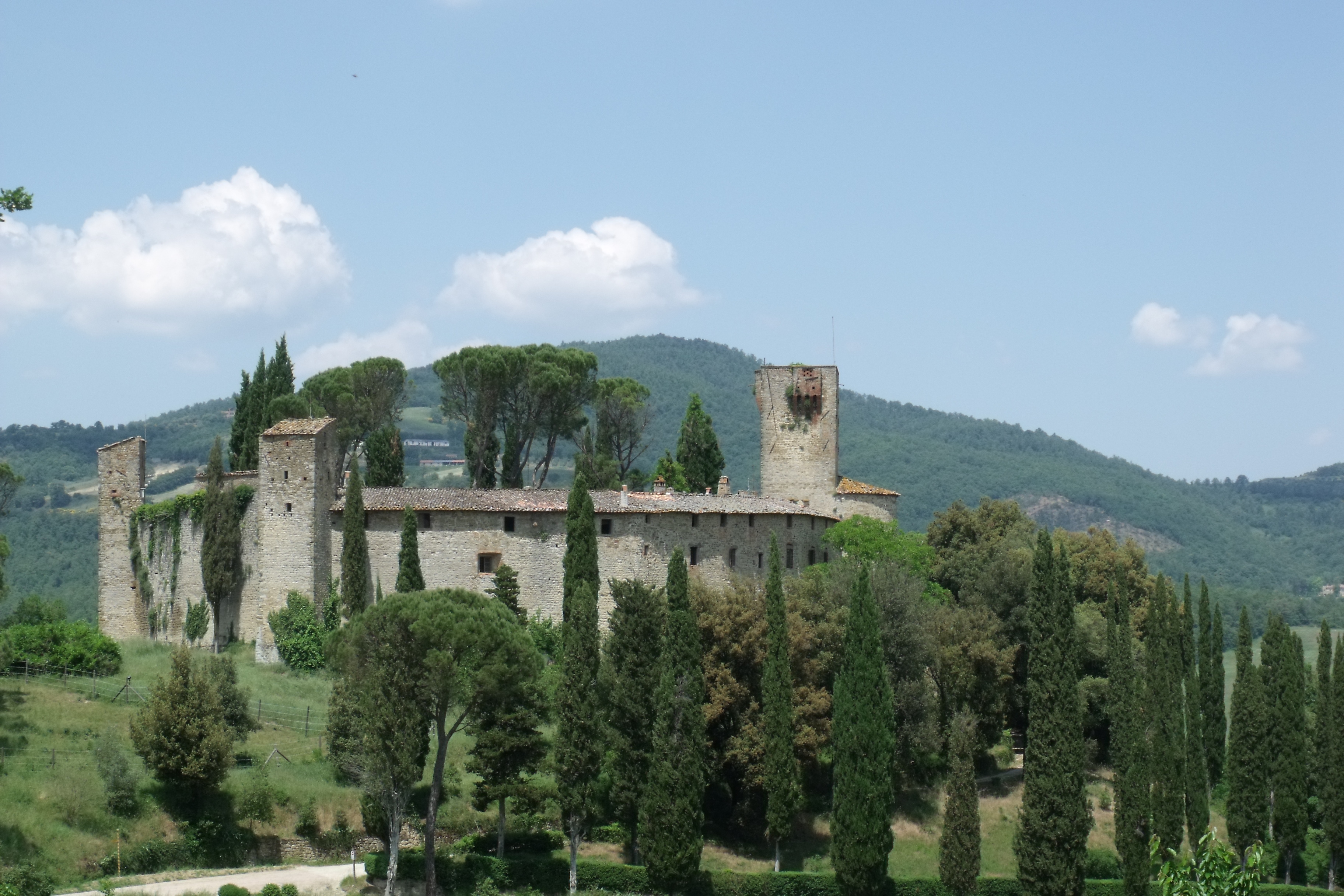 The Castel Reschio in Lisciano Niccone, Province of Perugia, Umbria, Italy